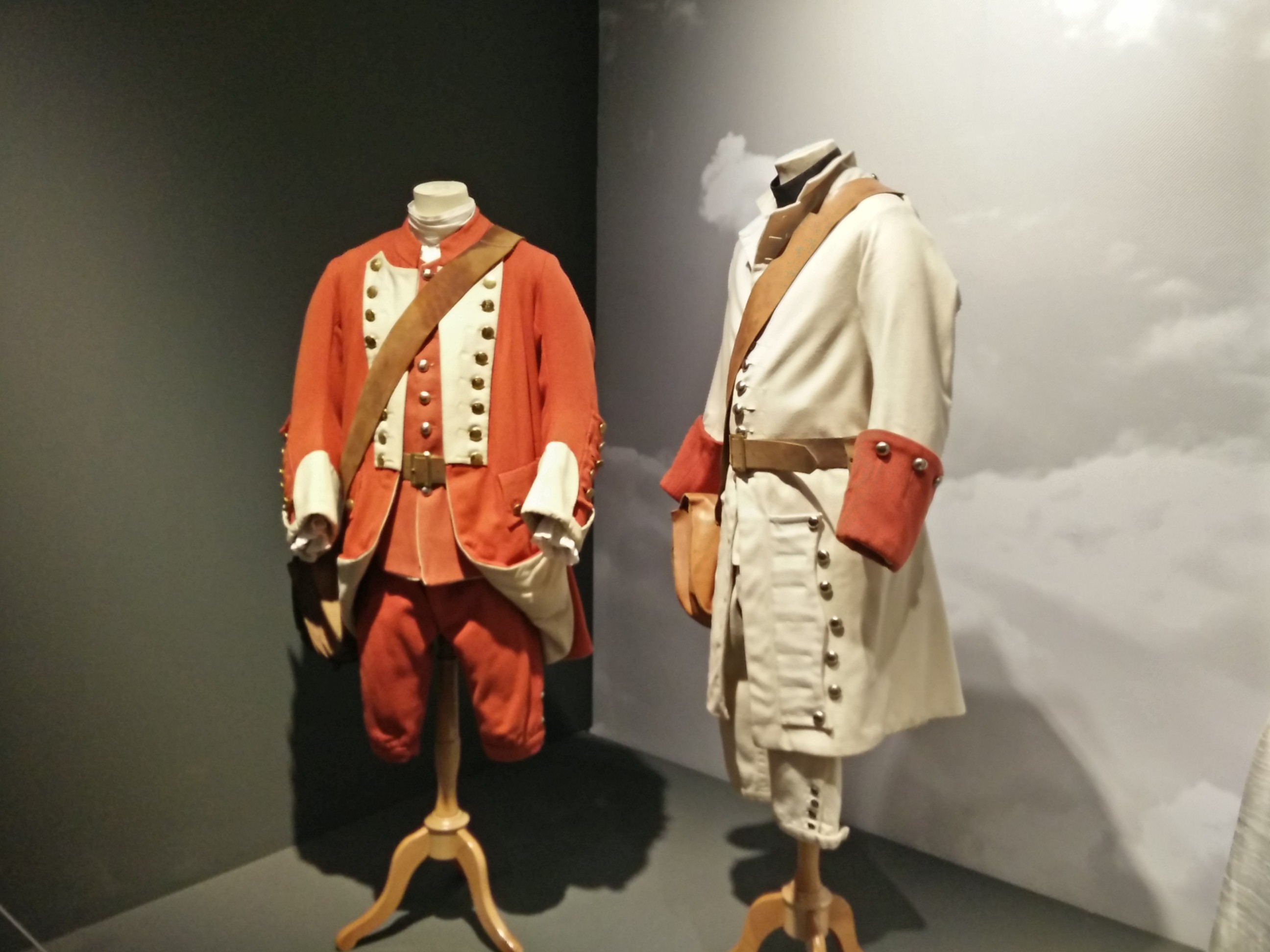 Suits worn in the movie "Barry Lyndon". On the left, uniform of the British army. On the right, uniform of the French army.